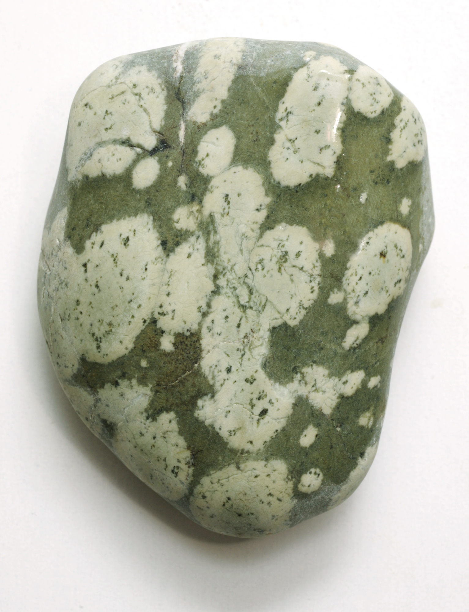 These distinctive rocks are associated with pillow lavas in locations in Europe and North America. They are commonly found among beach cobbles on the Strait of Juan de Fuca in Washington State.